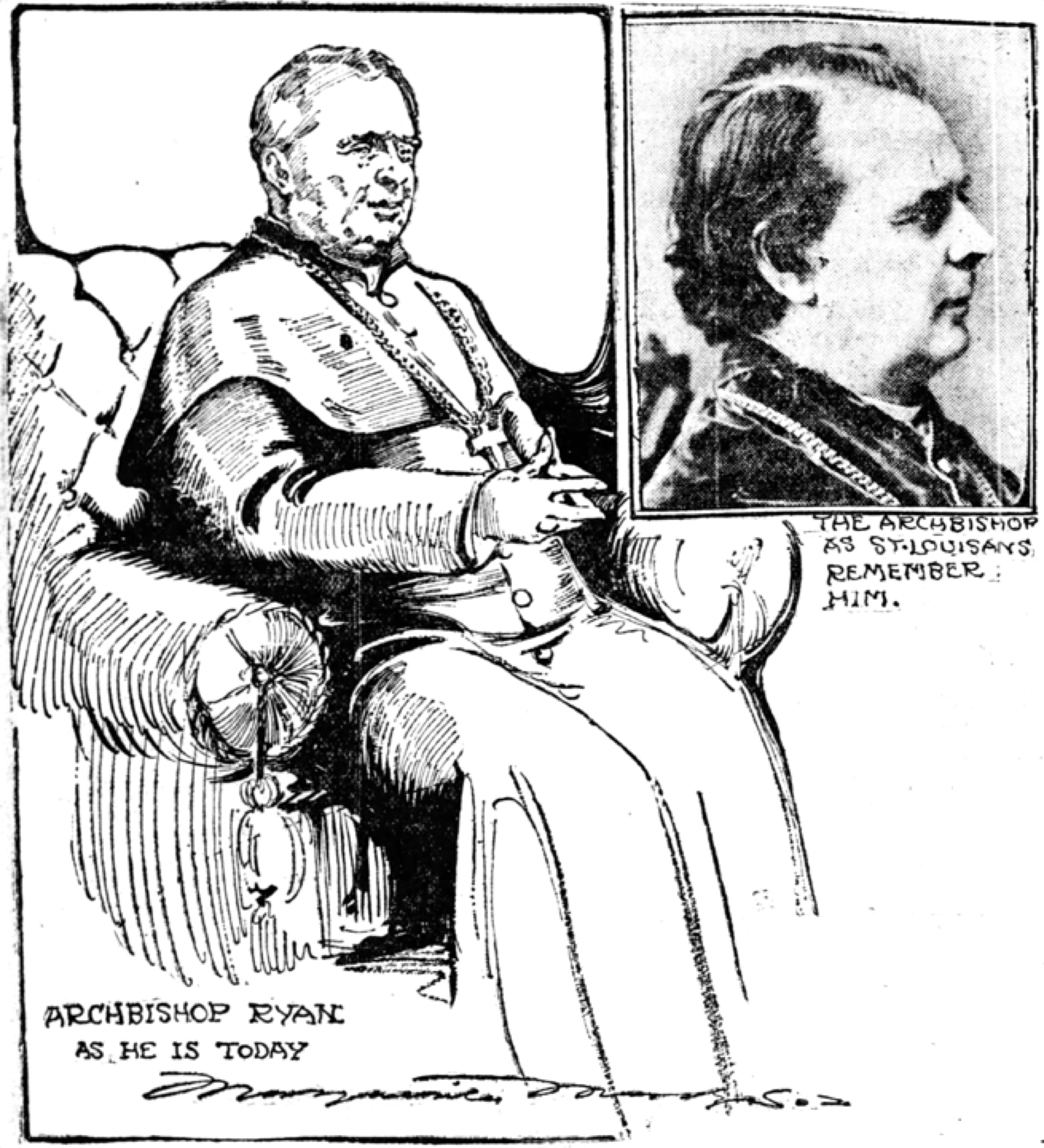 Photo of Archbishop Patrick John Ryan, with a sketch of him by Marguerite Martyn, 1909